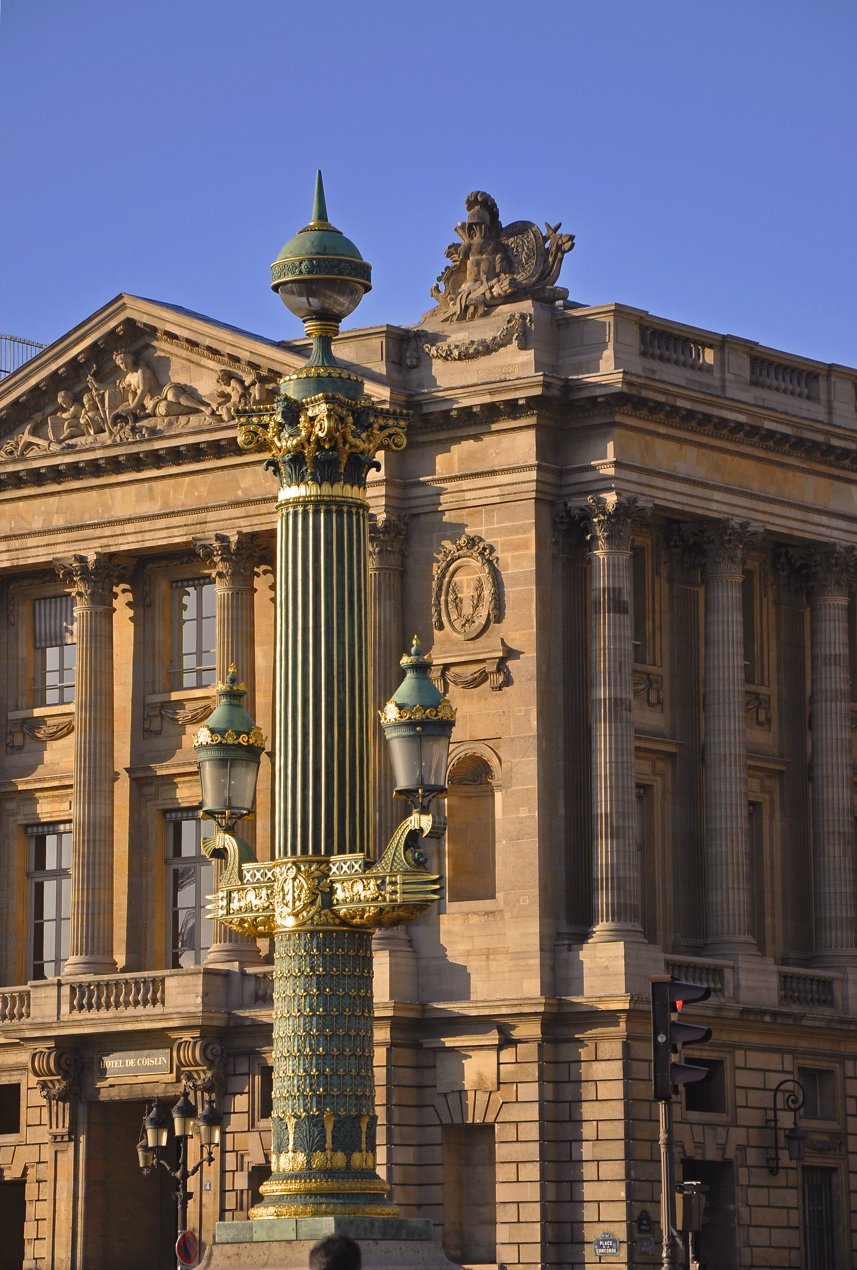 Hôtel de Coislin at 4 place de la Concorde in the 8th district of Paris, France